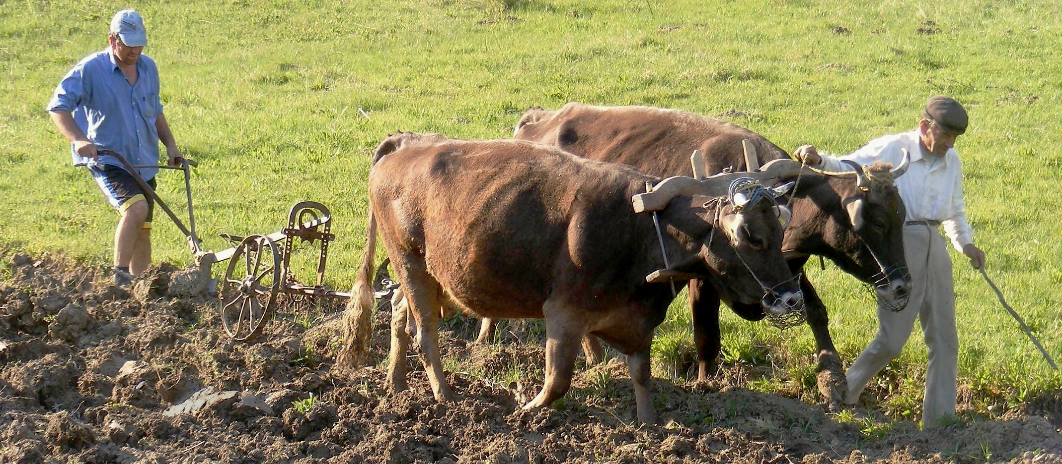 People working with cattle and plough in Gorj County, Romania